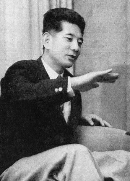 Tetsuo Hamuro